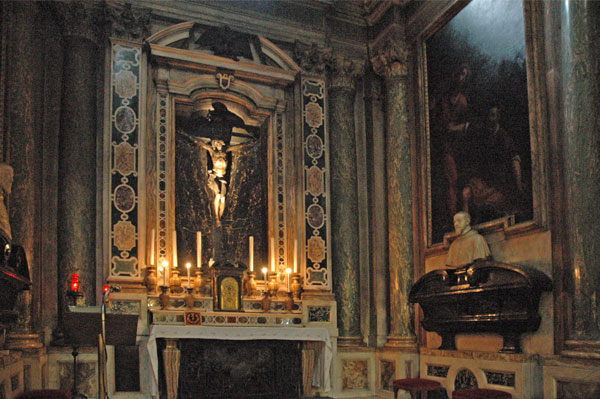 Santa Trinita. Usimbardi Chapel. Florence